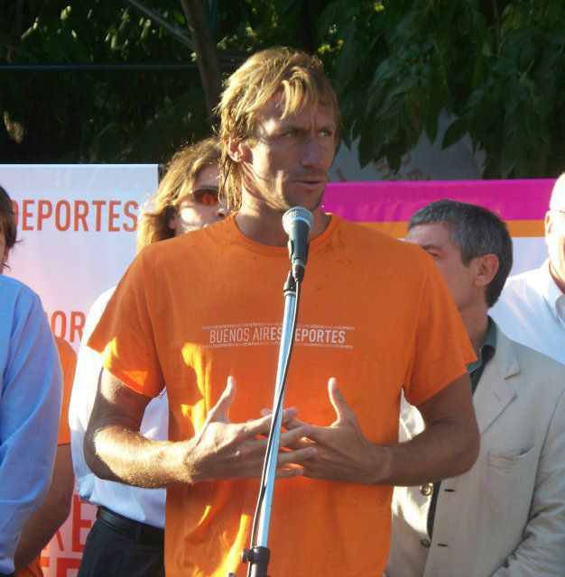 José Meolans in the city of Lezama, Buenos Aires, in 2012.